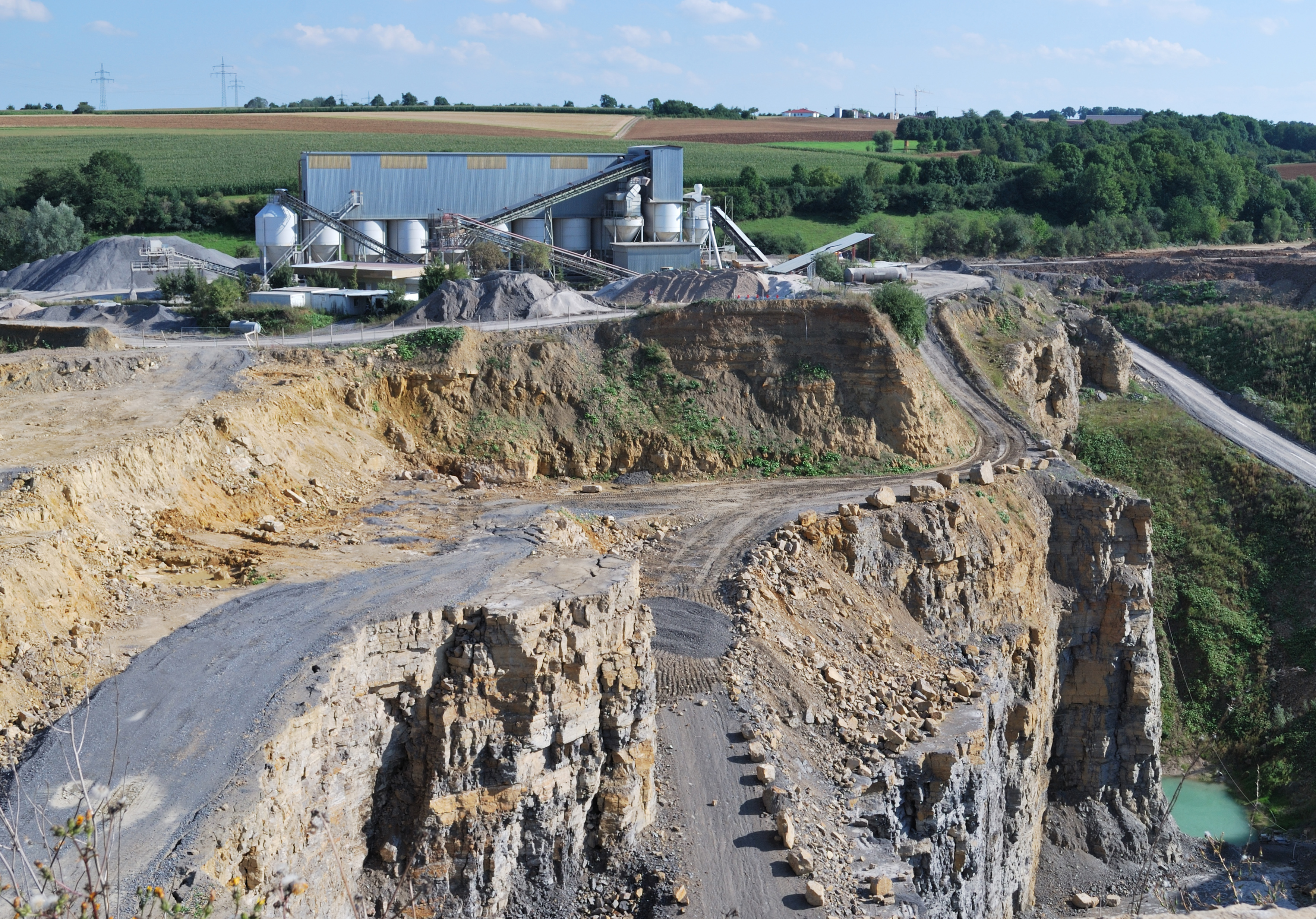 Stone breaking works in Markgröningen in Baden-Württemberg, Germany.